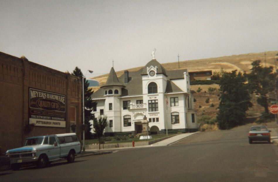 The Garfield County Courthouse and another building in downtown Pomeroy, Washington, United States. This part of downtown Pomeroy is part of the Downtown Pomeroy Historic District, a historic district that is listed on the National Register of Historic Places.